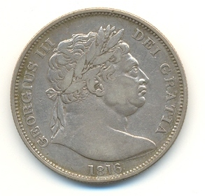 The portrait, known to collectors as the "bull-head George," was by the Italian engraver Benedetto Pistrucci, who was unable to engrave it from life since the King was insane. The design was met with such public hostility that it was withdrawn.